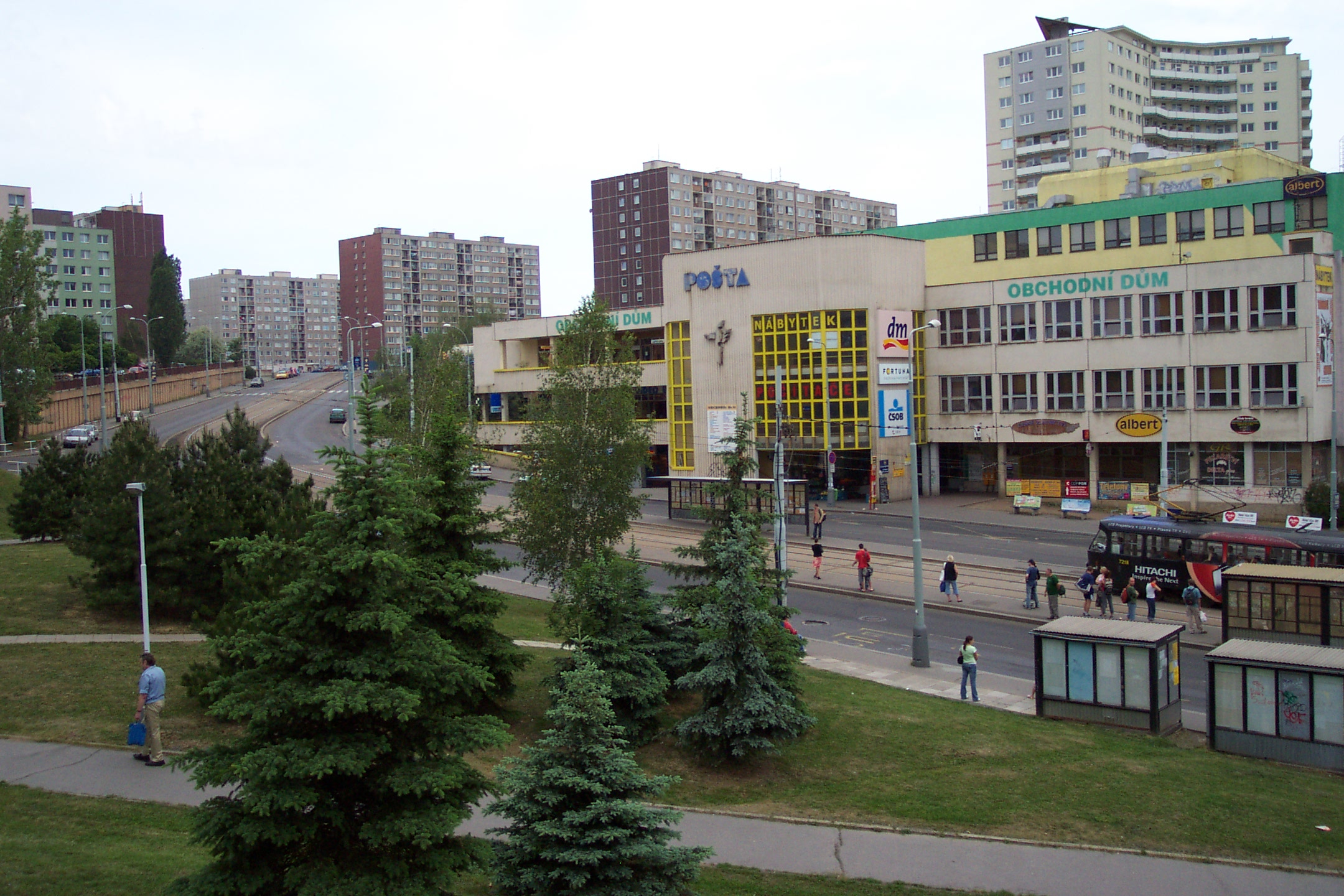 Prague esteate Řepy